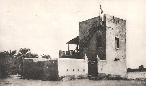 The small French military post of Loyi Ada (Loyada) at the border between French Somaliland and British Somaliland. Cropped from a postcard issued by G.B. (Grand Bazar), Djibouti, before 1935.